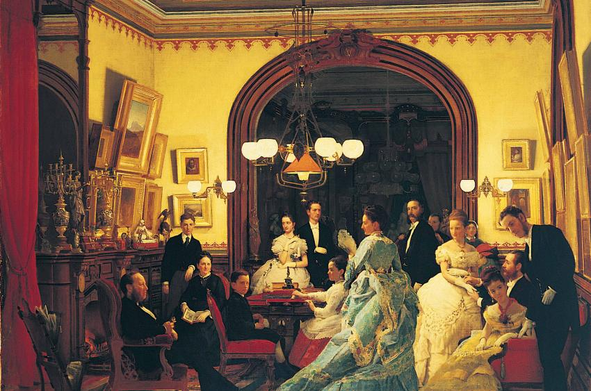 "Going to the Opera", a painting by Seymour Guy, shows the members of the wealthy Vanderbilt waiting for the carriage to go to the opera. Alternate photograph of the painting, showing more detail. Other version here: File:Vanderbilt family 1874.jpg